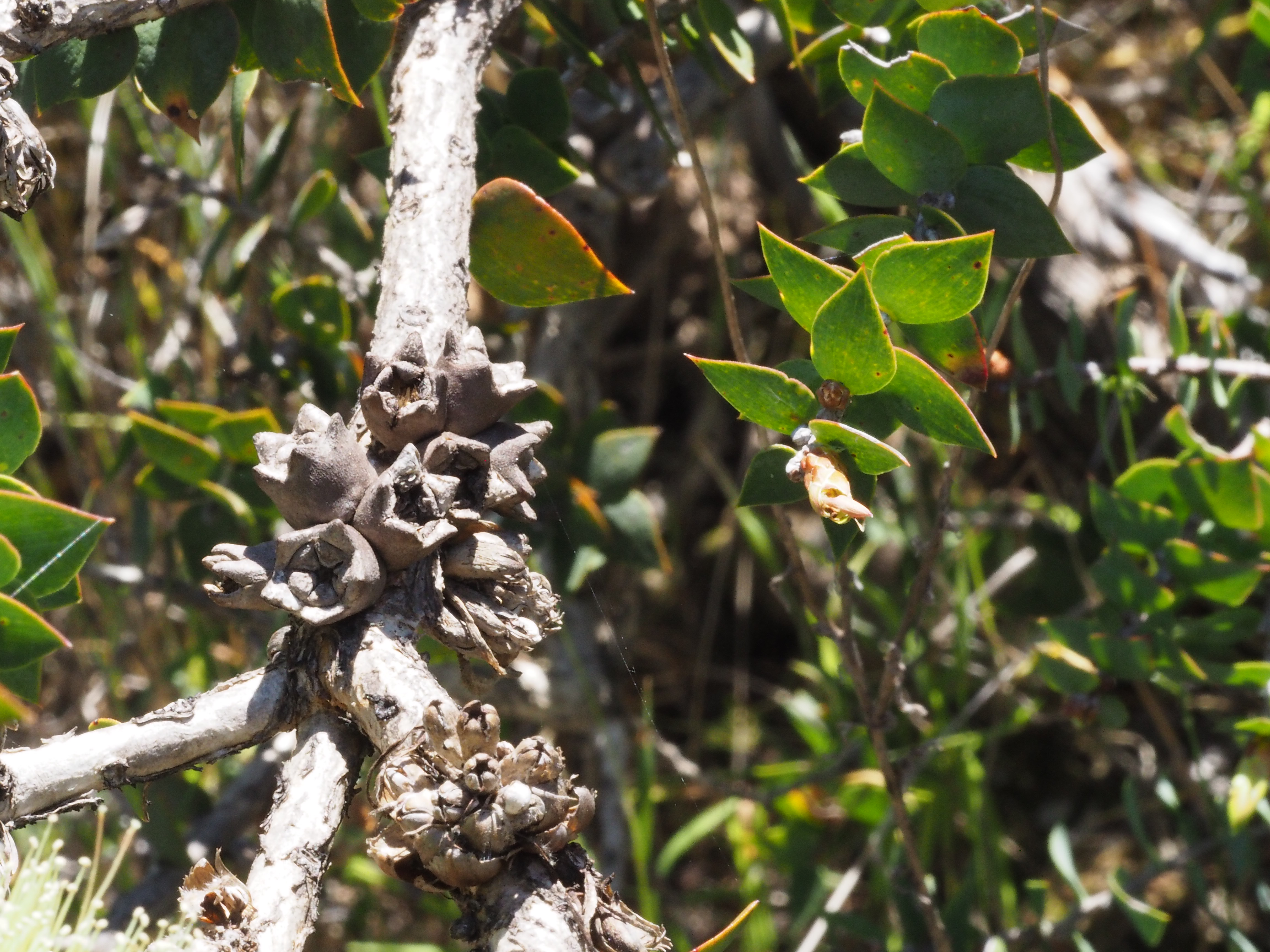 Melaleuca spectabilis growing at the type location north of Geraldton.